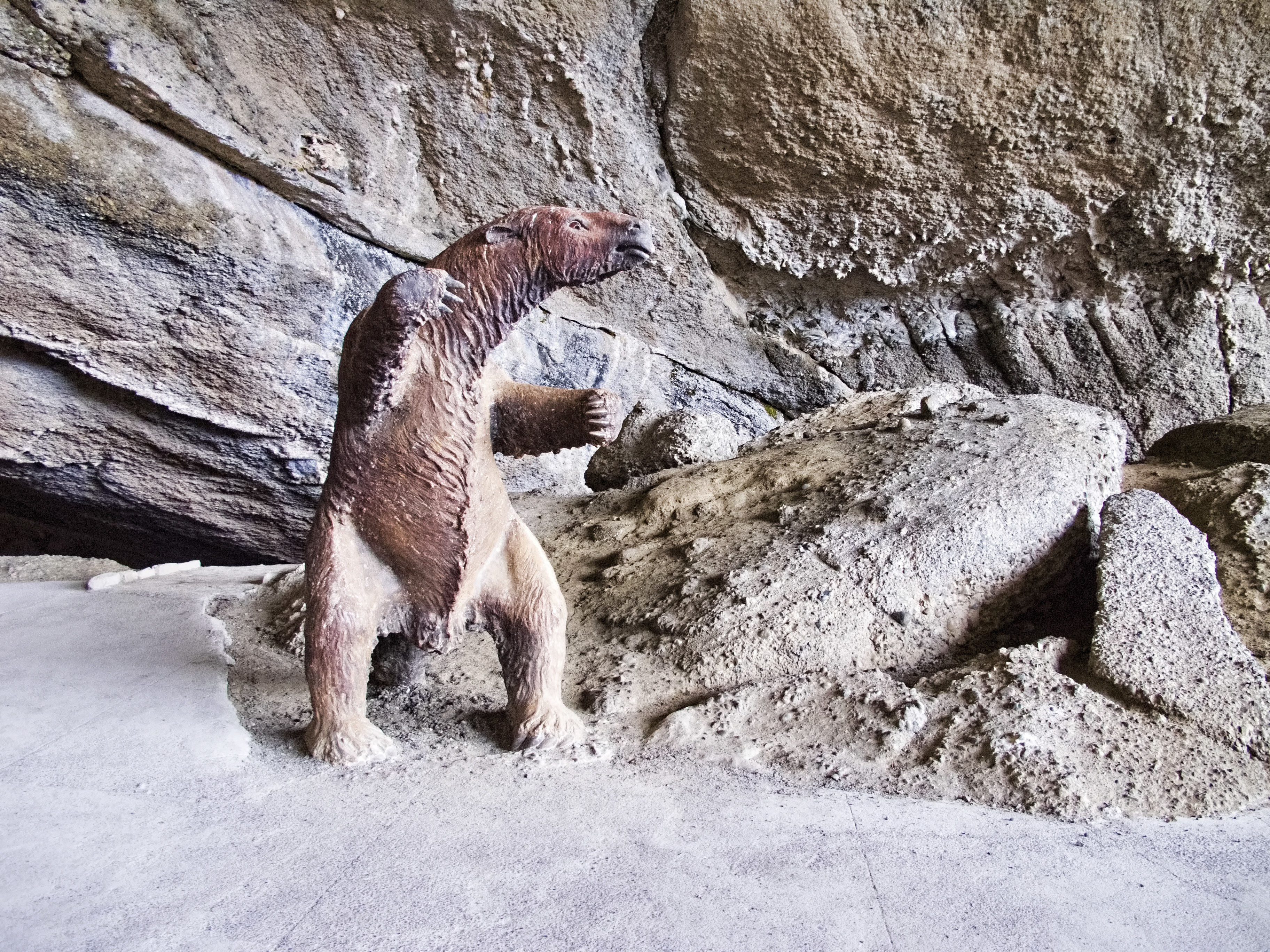 A life-size (about 10 feet high) replica of a mylodon (Mylodon darwini), an extinct prehistoric giant ground sloth, in the entranceway to the cave (one of several in Cueva del Milodón Natural Monument) where the partial remains of a mylodon were discovered in the 1890's by German explorer Hermann Eberhard. On Google Earth: Mylodon Cave 51°33'53.30"S, 72°37'9.44"W